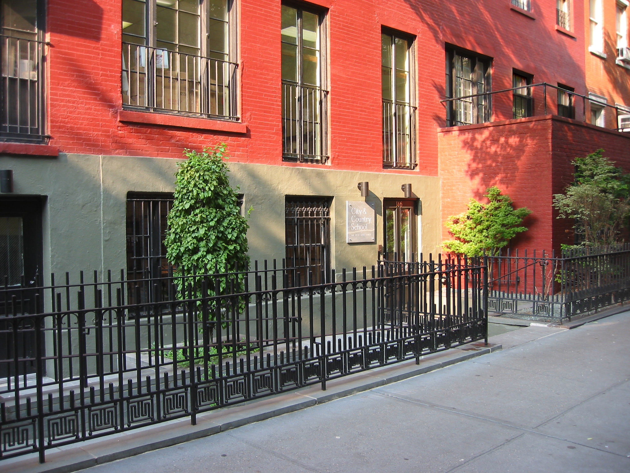 The entrance of City and Country School at 146 West 13th Street in New York City.